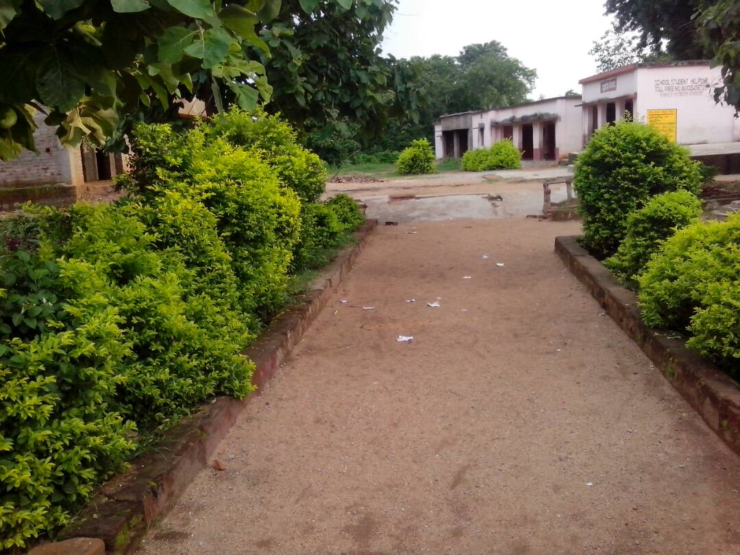 high school